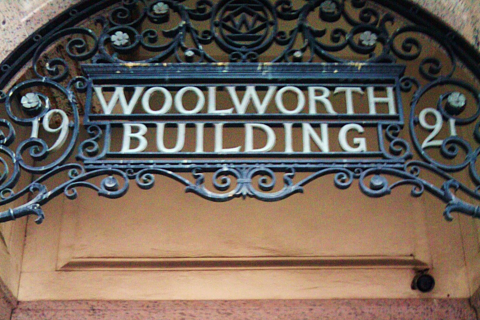 Entrance signage — F. W. Woolworth Building, Watertown, New York. May, 2010.